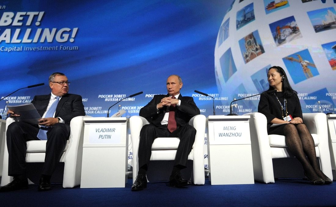 From left to right are Andrey Kostin, Vladimir Putin and Meng Wanzhou at the Russia Calling! Investment Forum, Moscow, Russia.